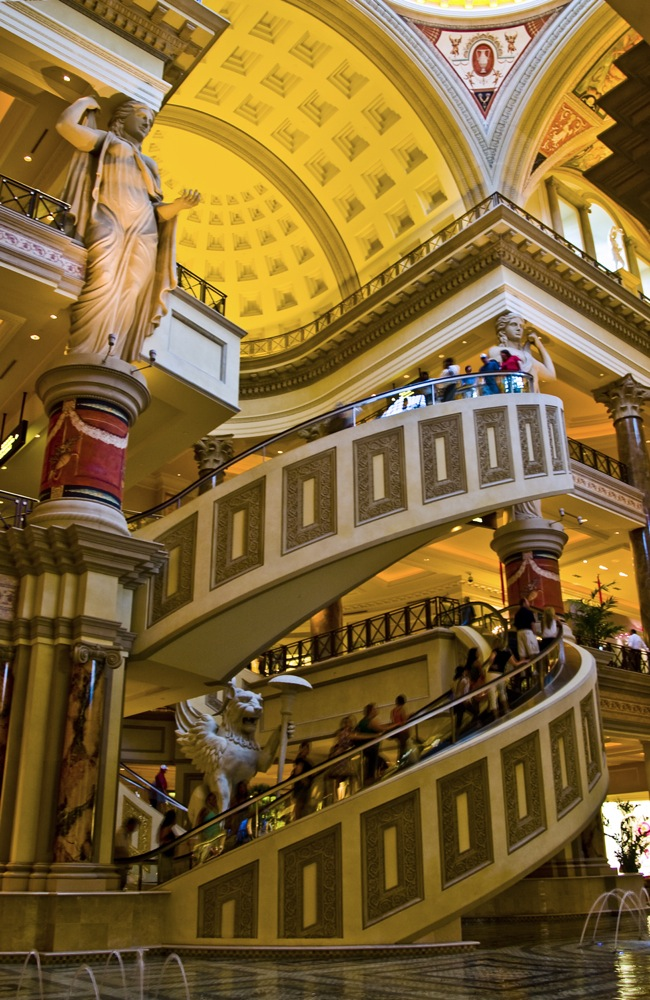 The circular escalator at The Forum Shops at Caesar's Palace